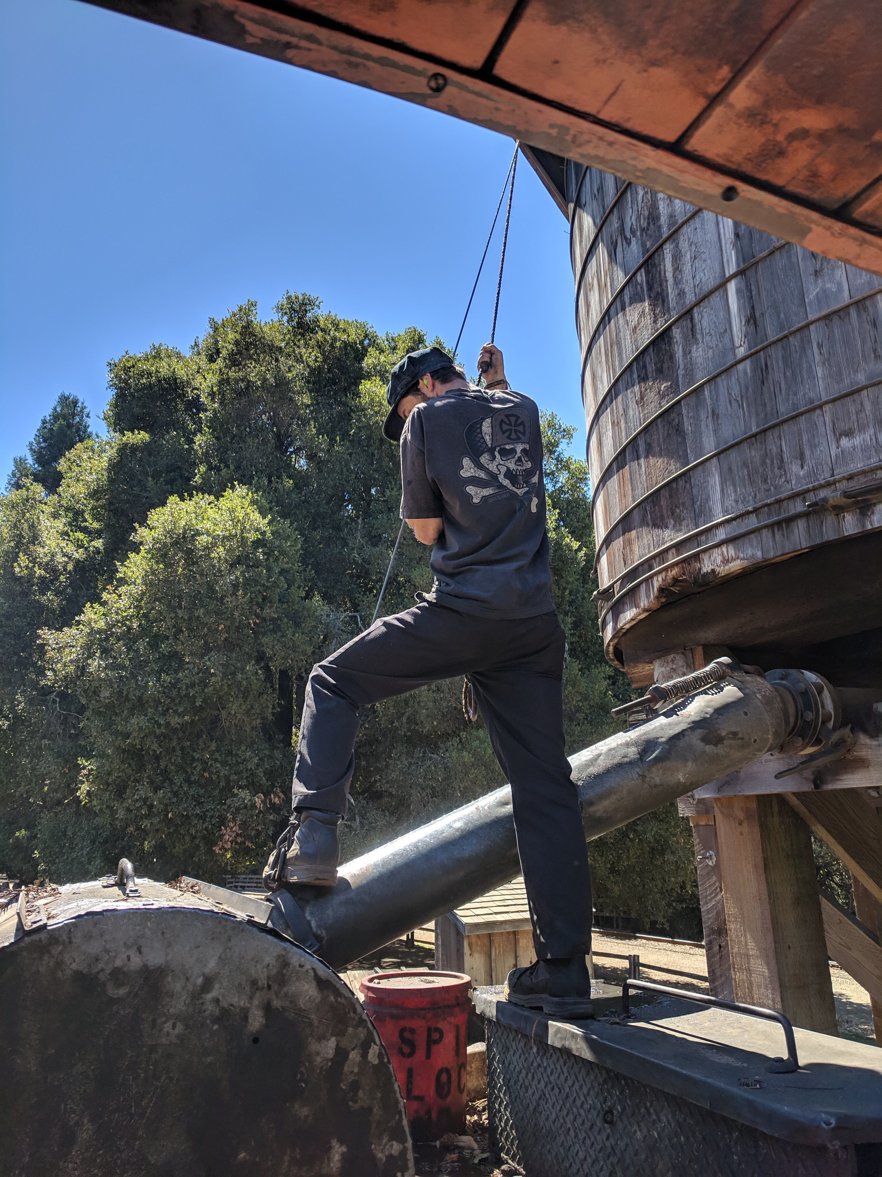 A fireman refills the water tank from a water tower on the Shay locomotive #1, "Dixiana", at Roaring Camp & Big Trees Narrow Gauge Railroad.